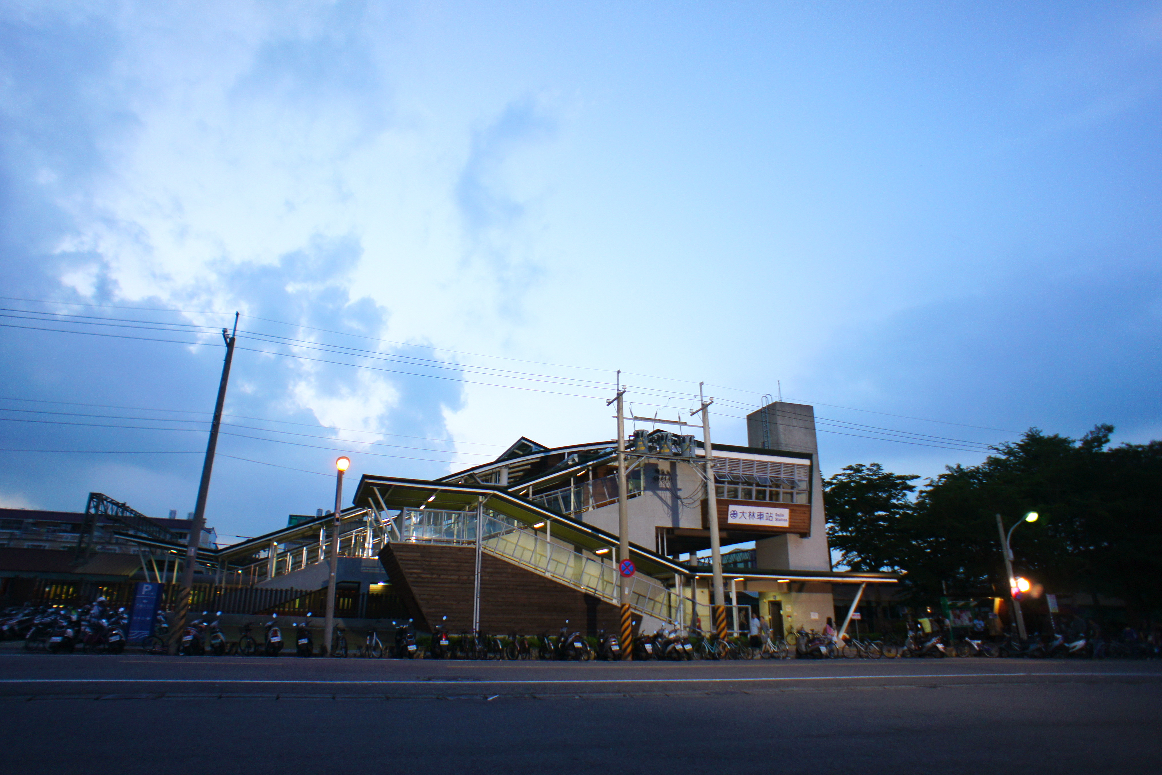 Dalin Station in the evening, Chiayi, Taiwan.